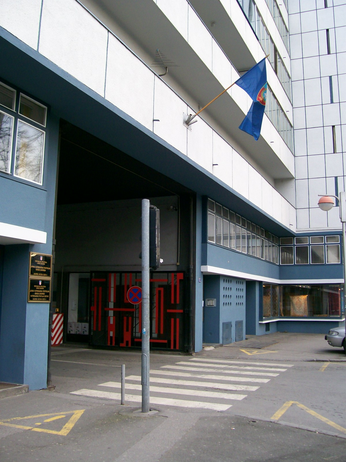 Zagreb Fire Brigade yard entrance